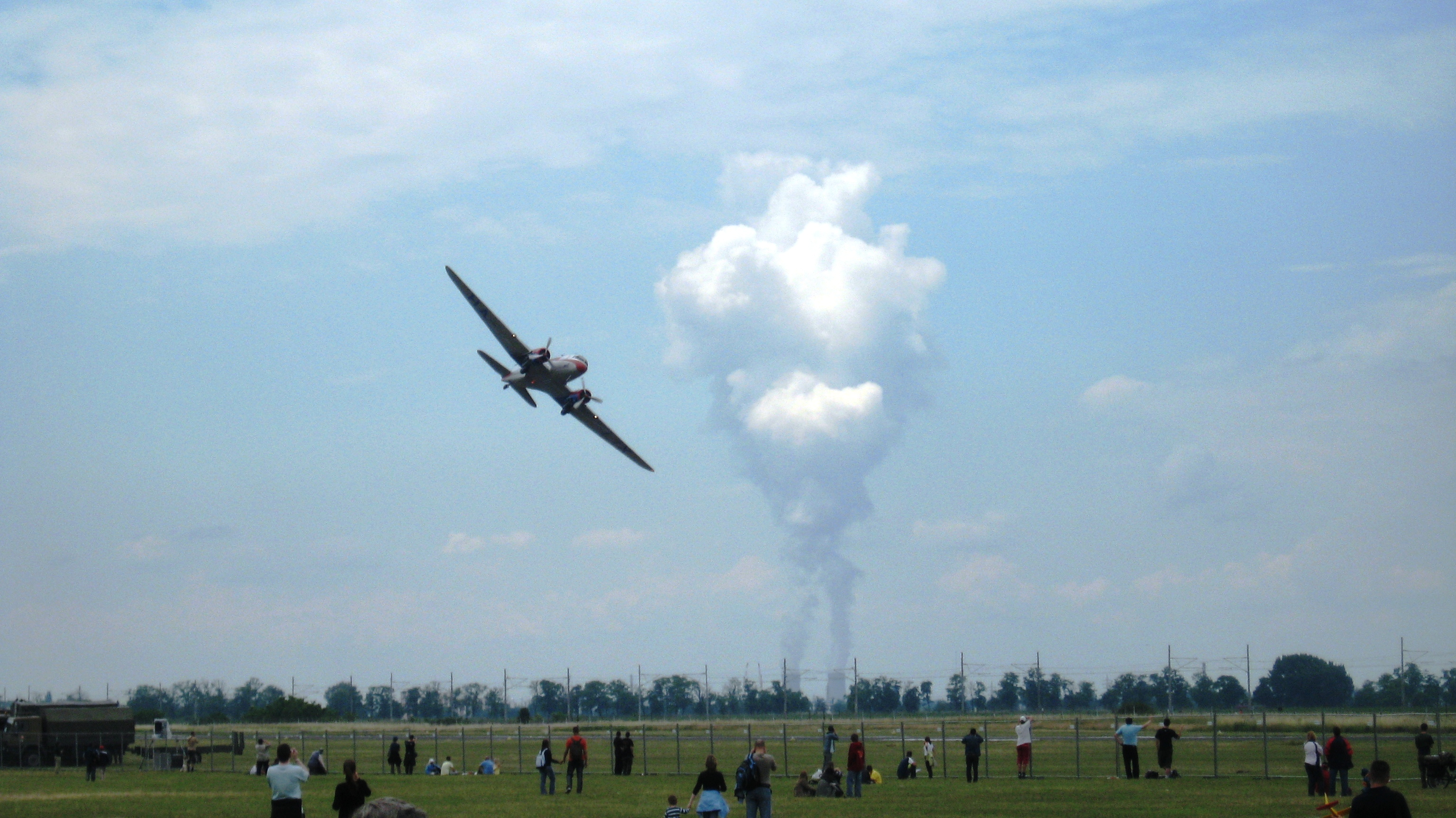 Piestany Air Show - WWII Li-2 Sunflower with cloud from nuclear plant